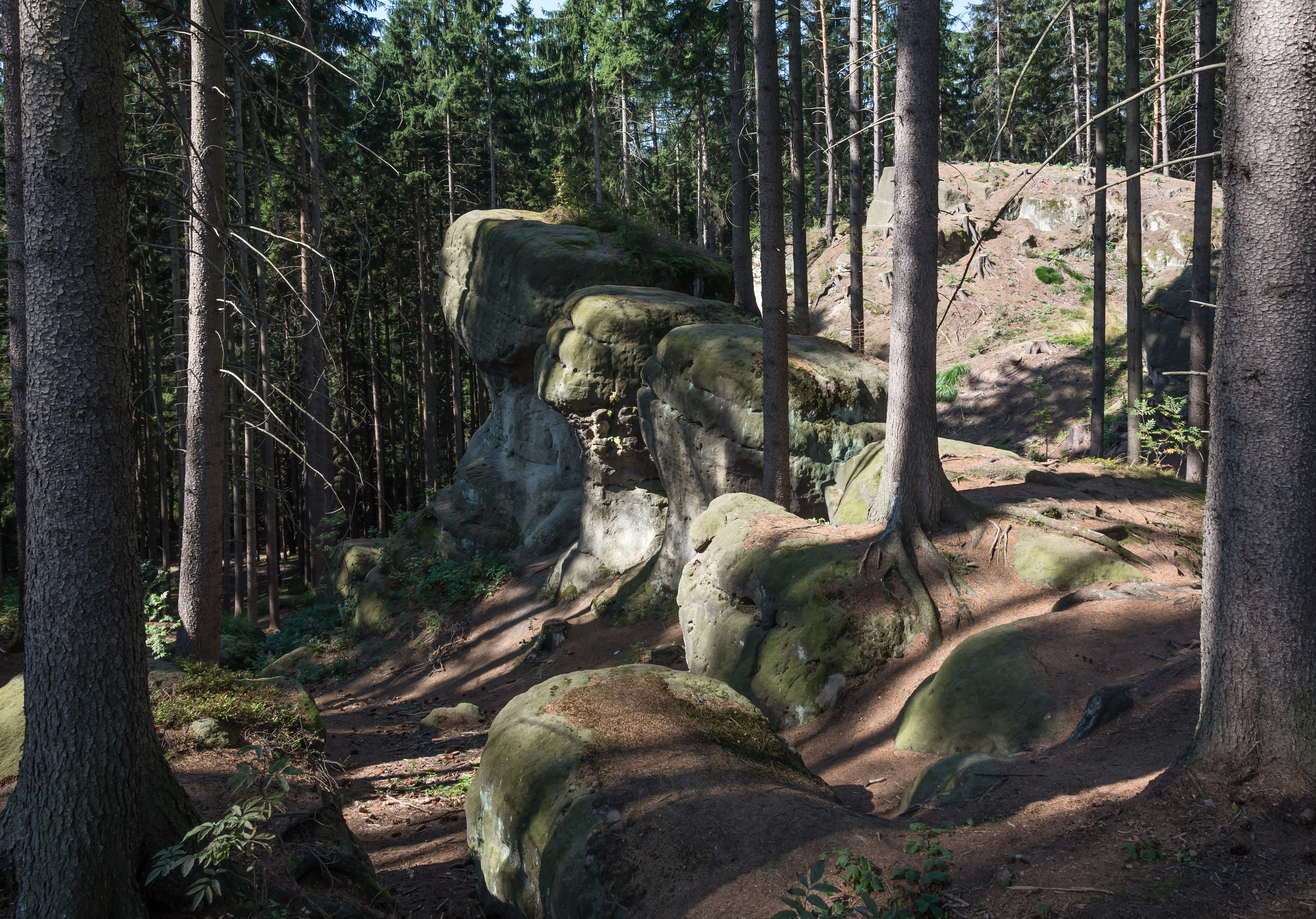 Nature reserve Głazy Krasnoludków